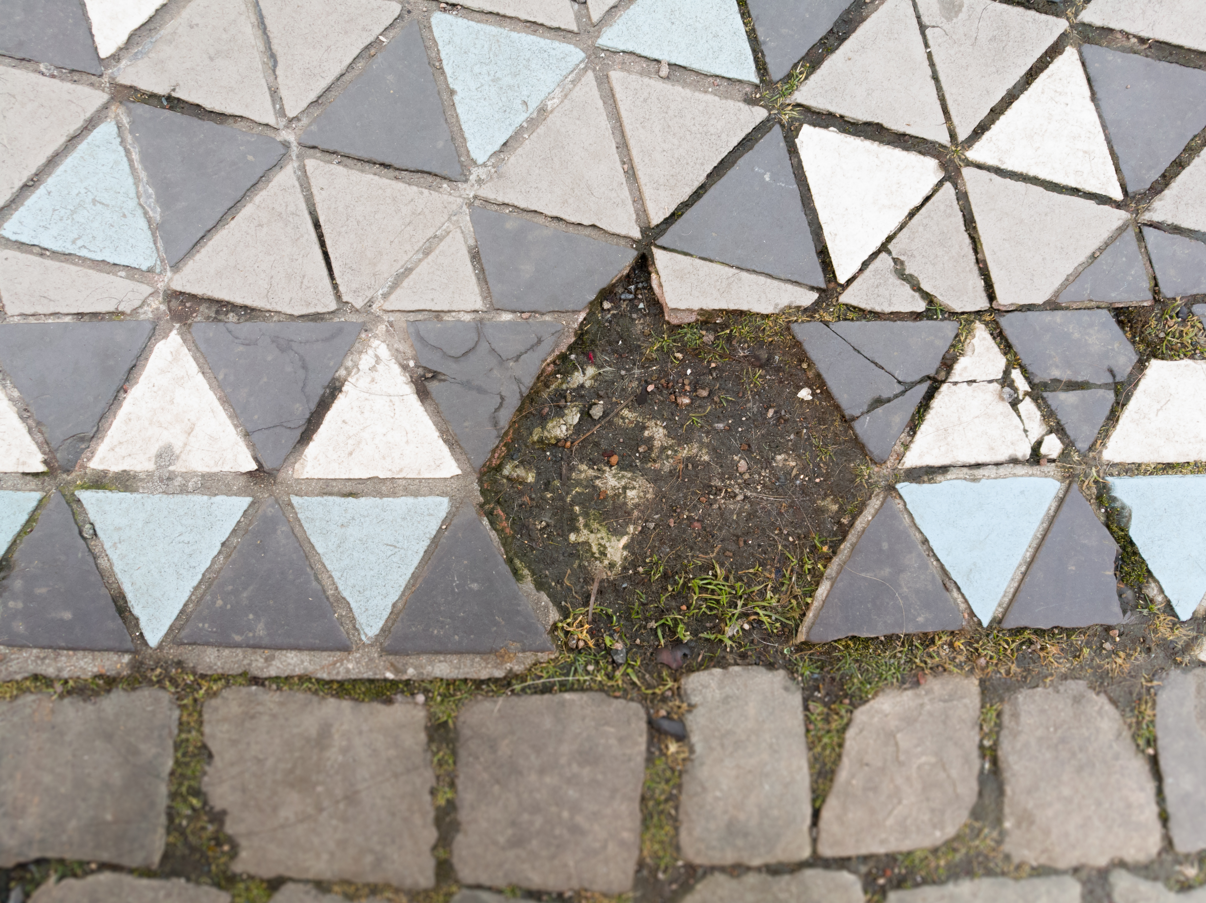 Pigeon fountain, Cologne. Broken mosaic.